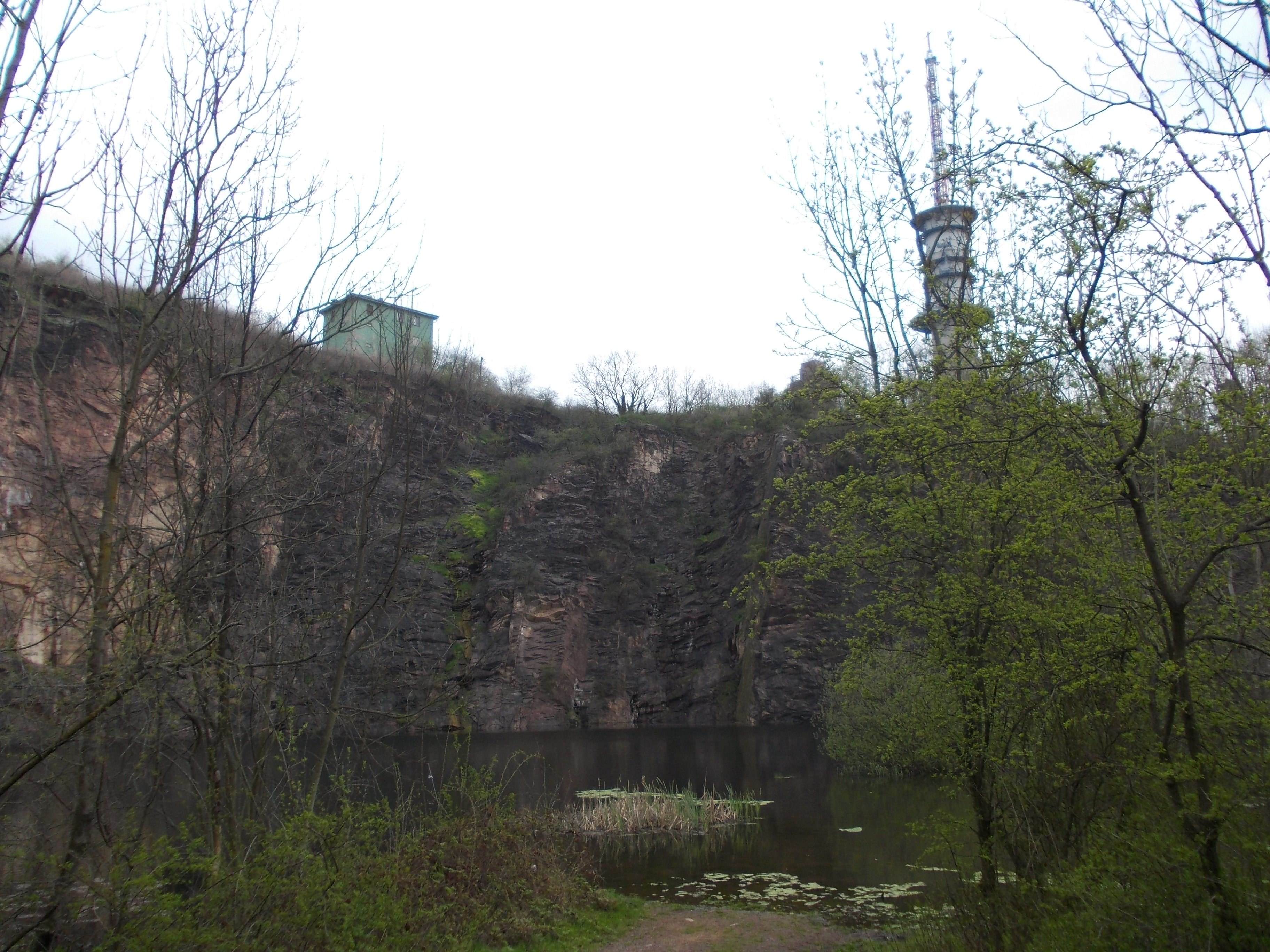 Goethe's quarry at the foot of Petersberg hill (Saalekreis, Saxony-Anhalt)